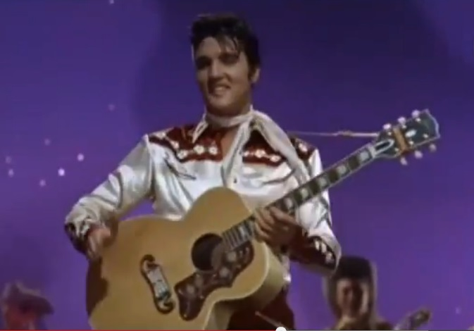 Deke Rivers (Elvis Presley) sings (Let Me Be) Your Teddy Bear. Scene from Paramount Pictures' Loving You.